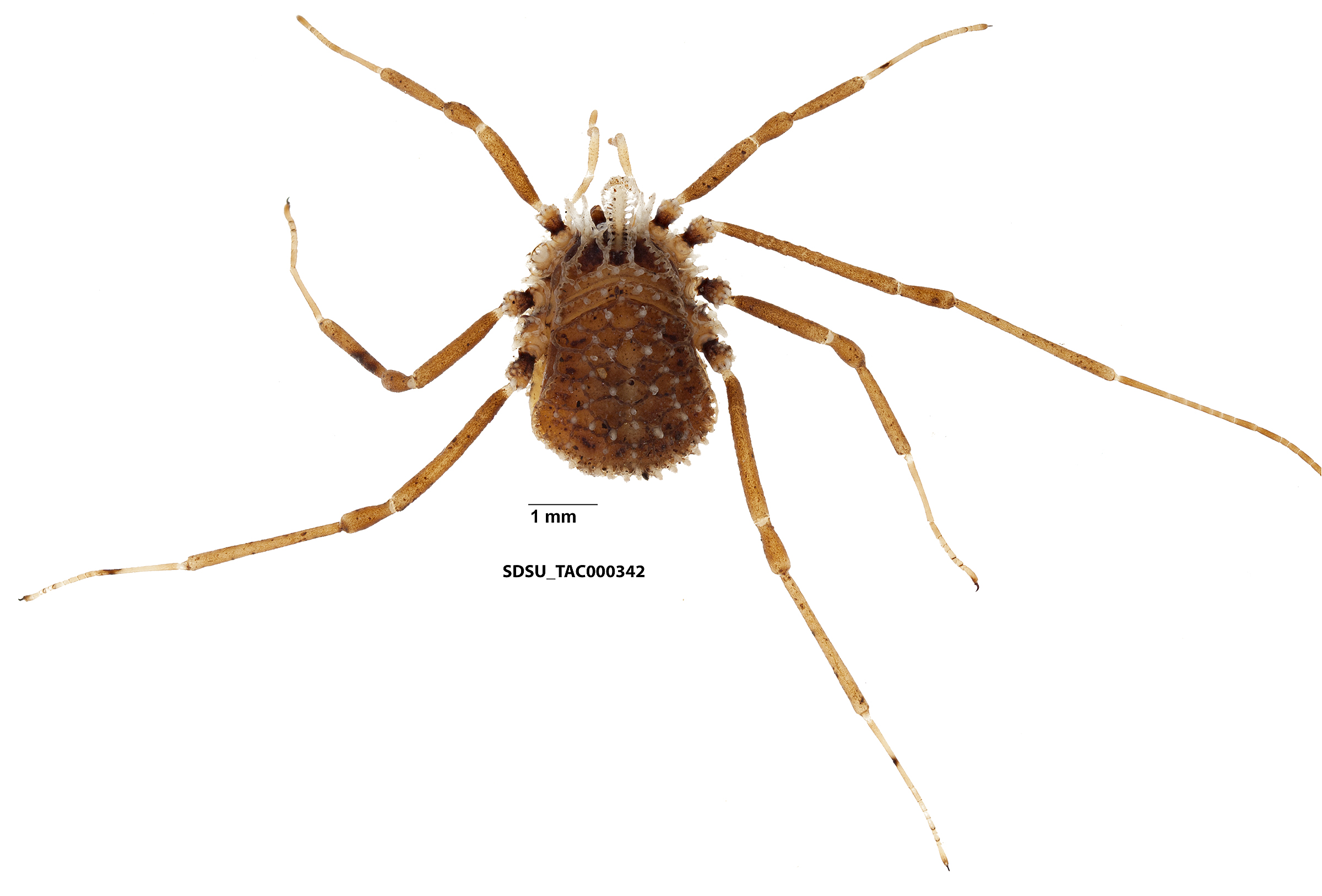 Ortholasma coronadense Cockerell, 1916; PRESERVED_SPECIMEN; FEMALE; ADULT; 17/01/2013 00:00; Identified by: M Hedin